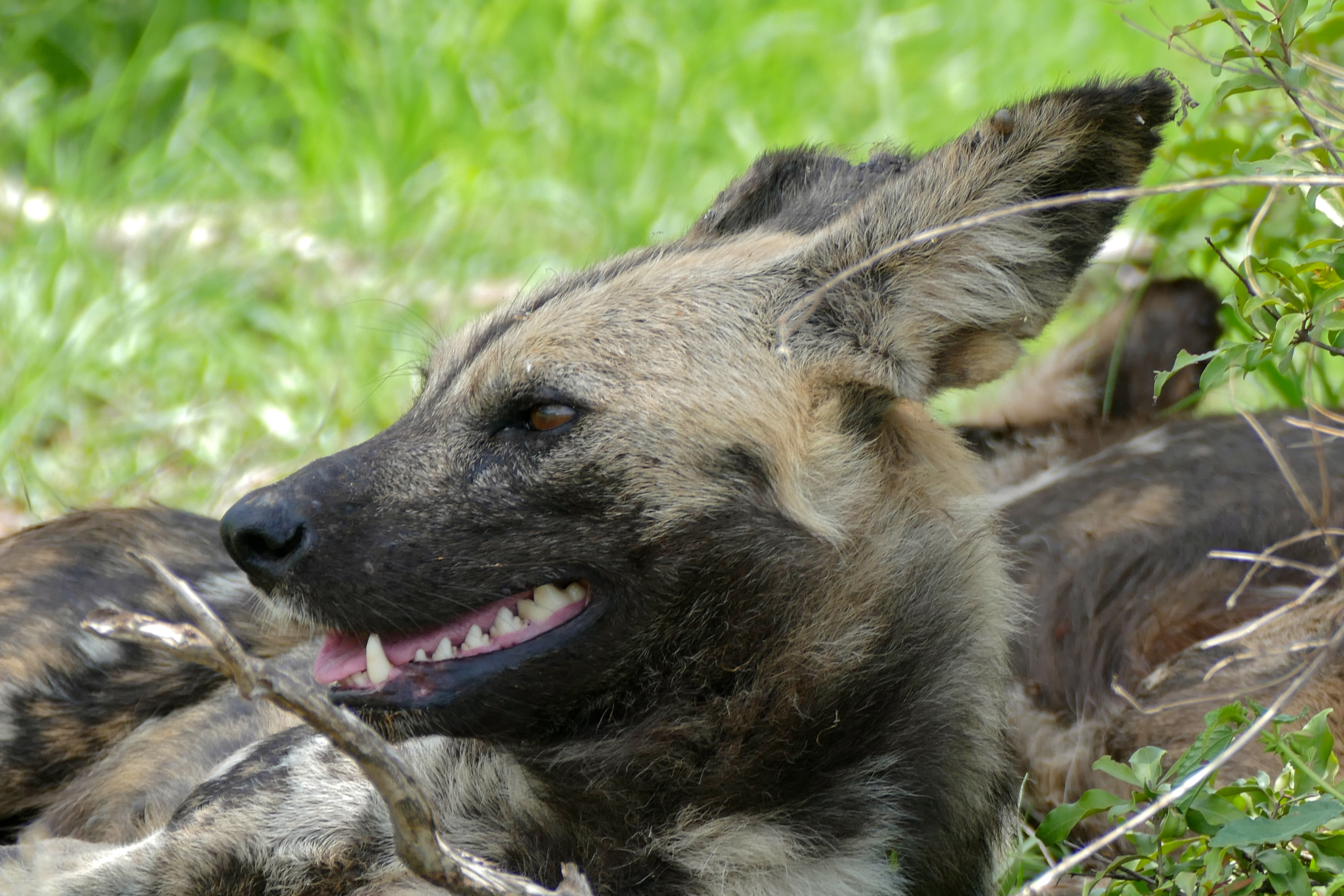 S28 Road South of Lower Sabie, Kruger NP, SOUTH AFRICA